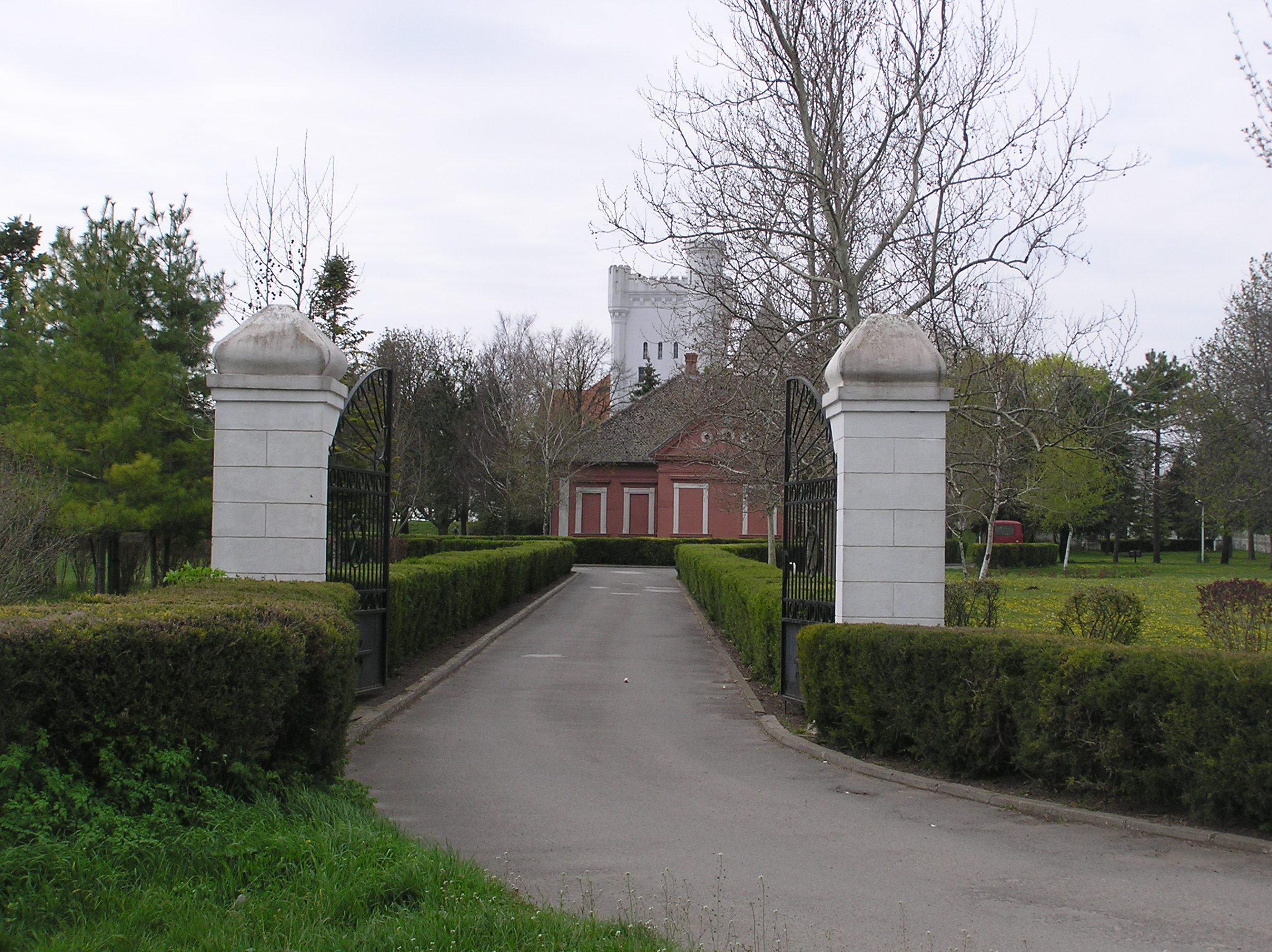 Dunđerski castle (Fantast), near Bečej, Serbia